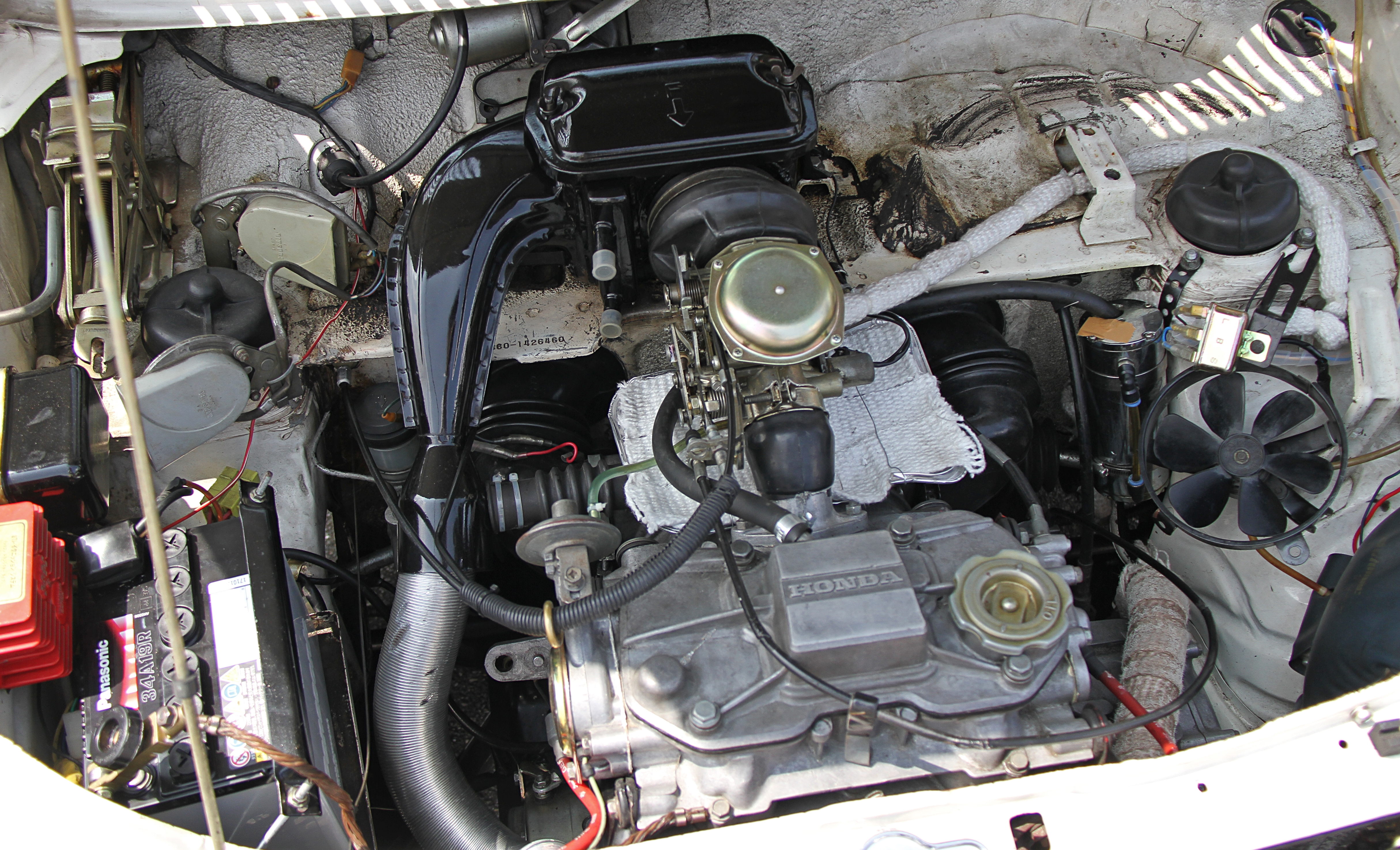 1969 Honda N360